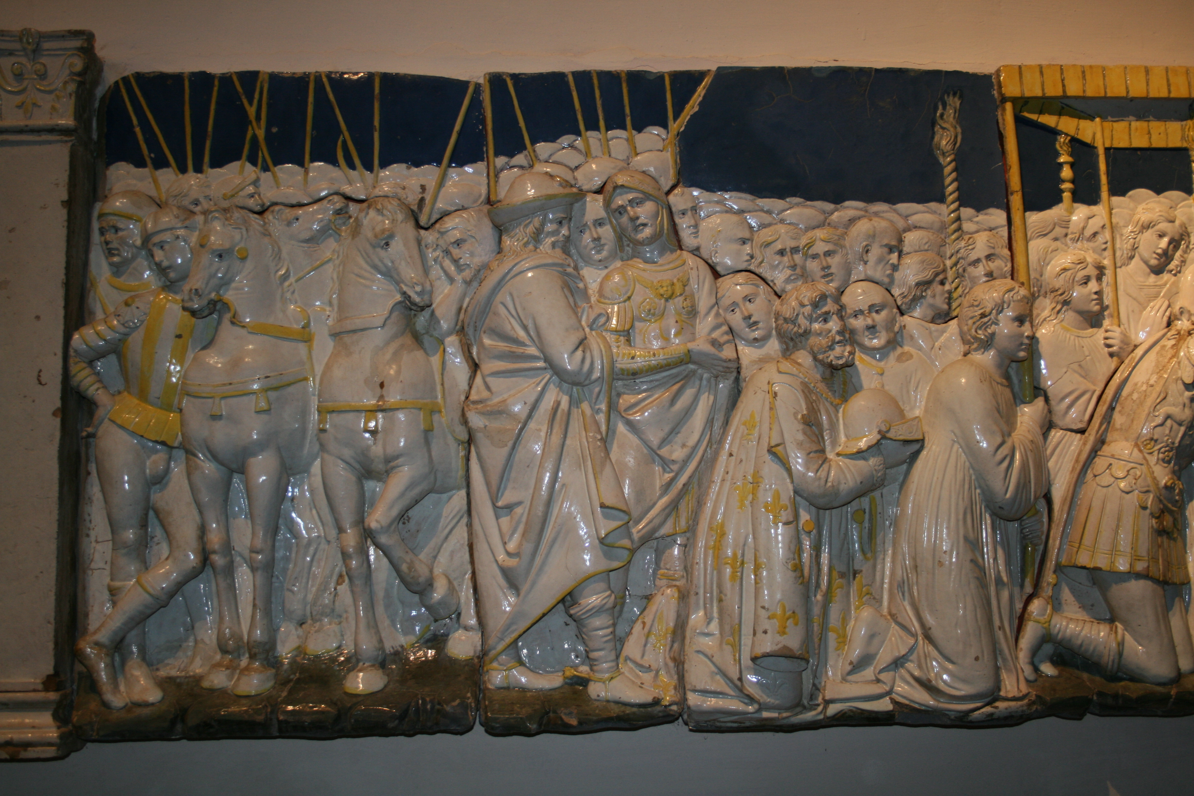 Detail of Guido Guerra VI giving the Holy Milk Relic to the San Lorenzo Church in Montevarchi by Andrea della Robbia